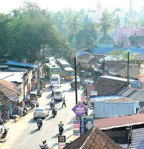 This is the skyview of Vattiyoorkavu Junction located in Thiruvananthapuram district in the Indian state of Kerala.